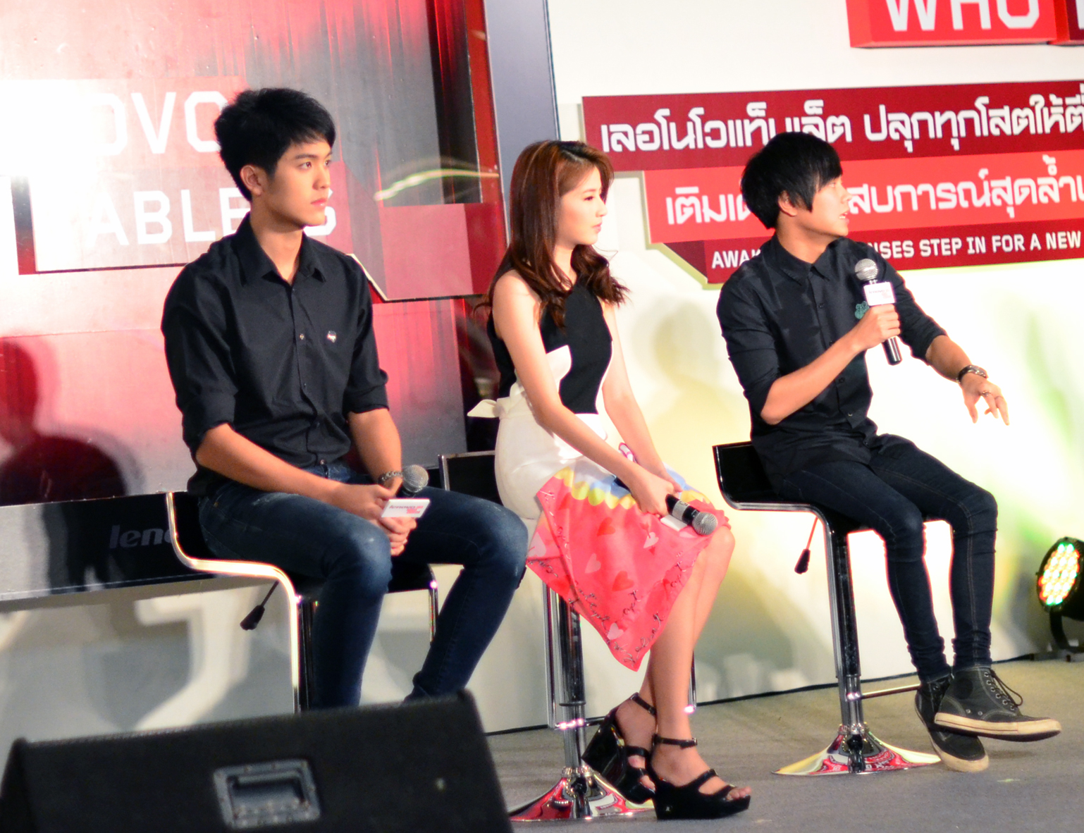 Sedthawut, Sananthachat, Gun